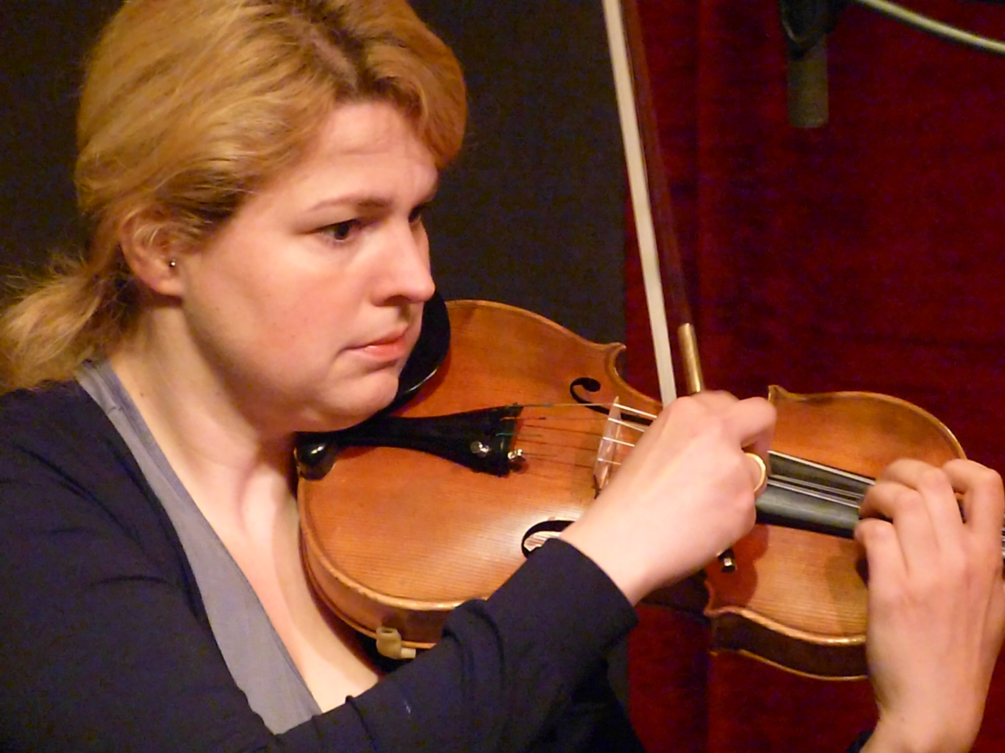 Zuzana Leharova (viol) in concert with Lisa Mezzacappa (b,comp), Angelika Sheridan (bfl), Annette Maye (cl), Carl Ludwig Hübsch (tuba) and Philip Zoubek (p) at Loft (Cologne), Germany, June 20th, 2016